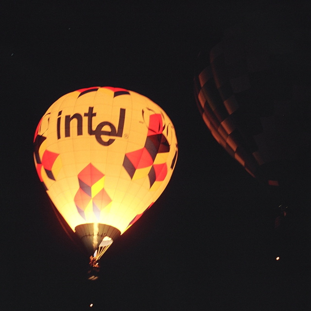 These members of the Dawn Patrol lifted off before sunrise to check wind conditions. I took this photo myself (with a Canon A1 film camera) during the 2005 Albuquerque Balloon Fiesta.